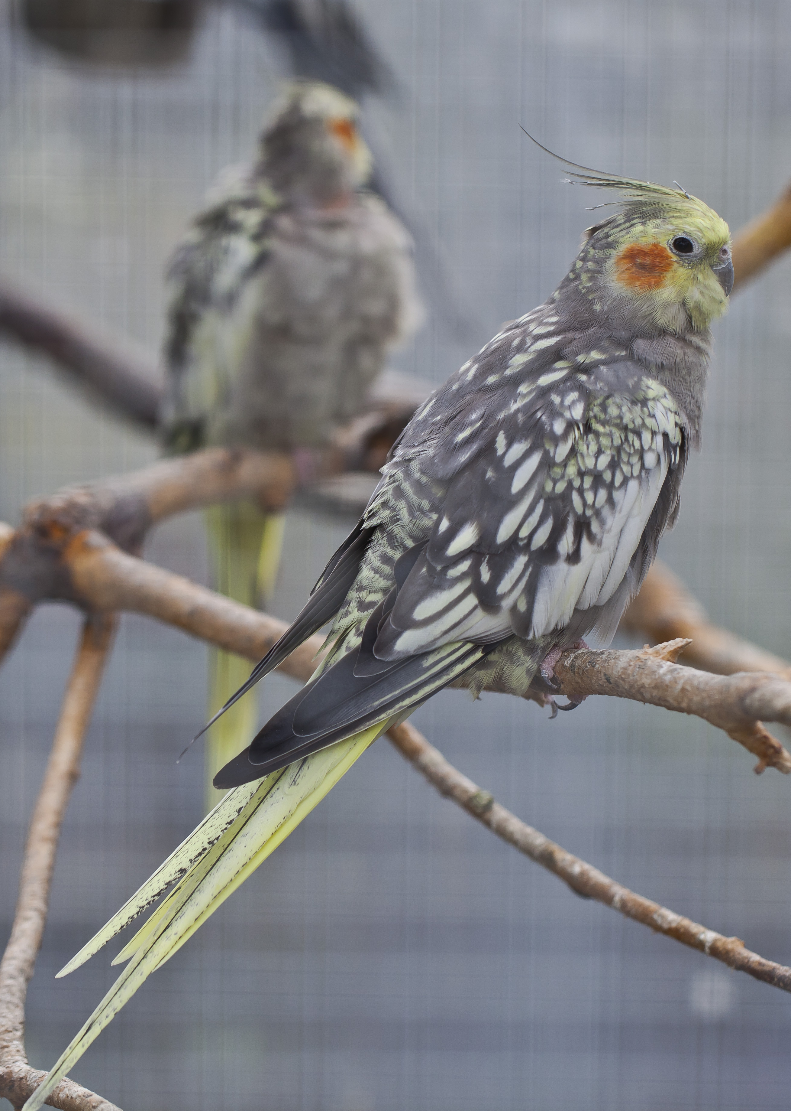 Nymphicus hollandicus, Tallinn Botanic Garden, Estonia